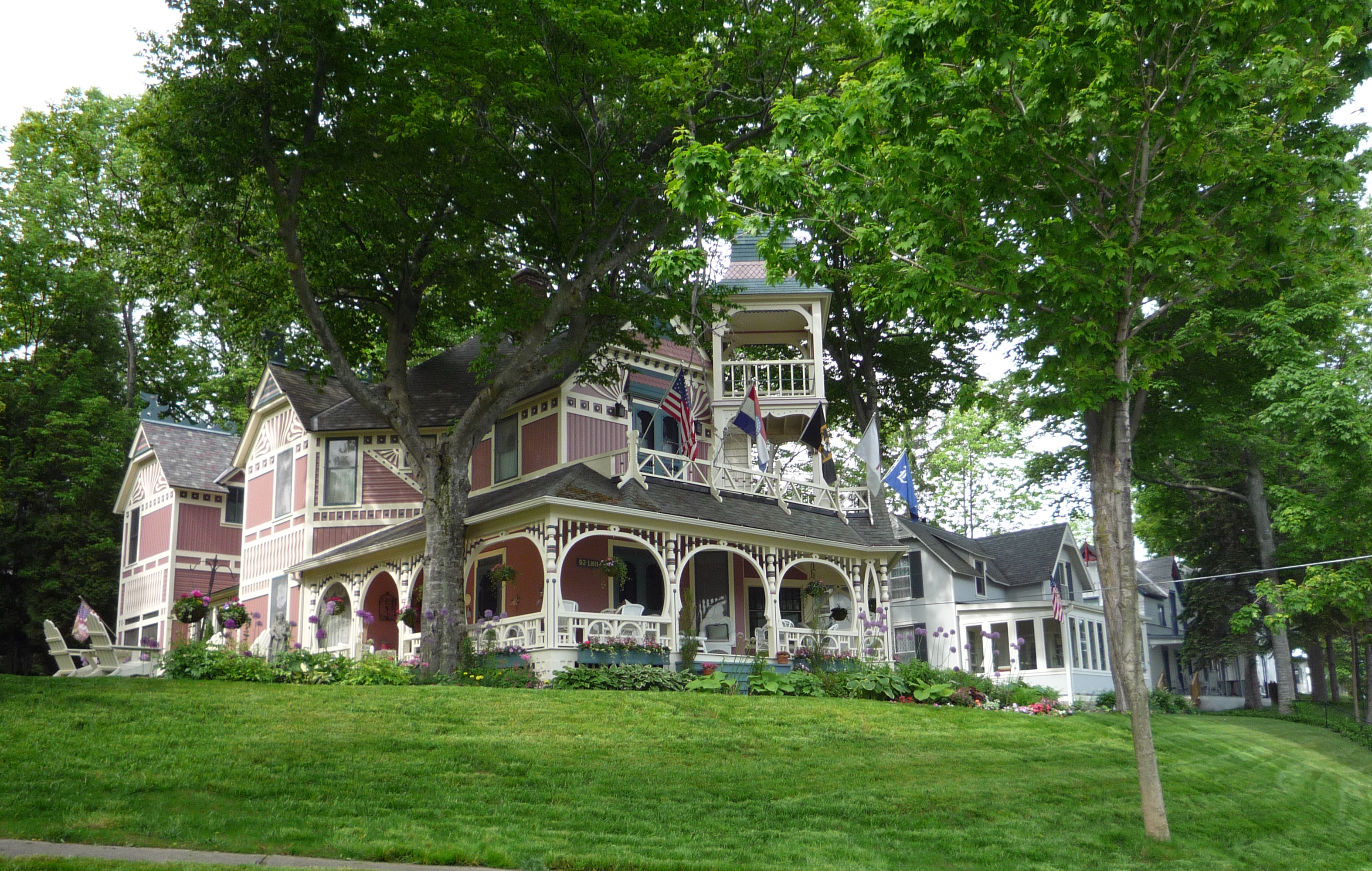 Cottages, Bay View, Michigan, USA. Founded in 1875, Bay View is a religious resort community, an early version of a middle-to-upper class American resort.